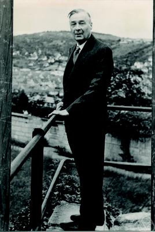 Philip Hall 1960